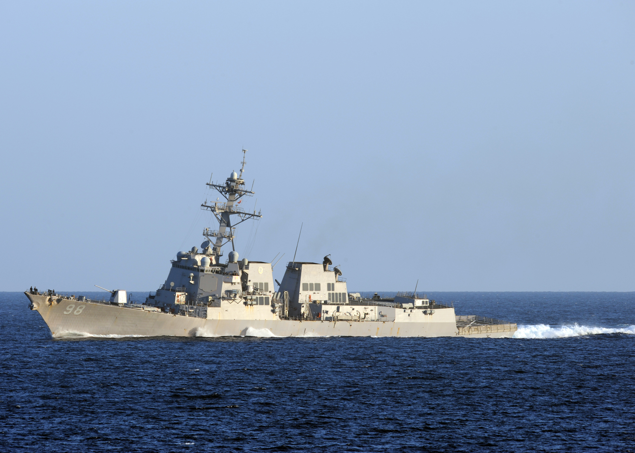 GULF OF ADEN (Feb. 21, 2010) The Arleigh Burke-class guided-missile destroyer USS Forrest Sherman (DDG 98) patrols the Gulf of Aden. Sherman is part of Combined Task Force 151, a multinational task force established to conduct anti-piracy operations. (U.S. Navy photo by Mass Communication Specialist 1st Class Elizabeth Allen/Released)